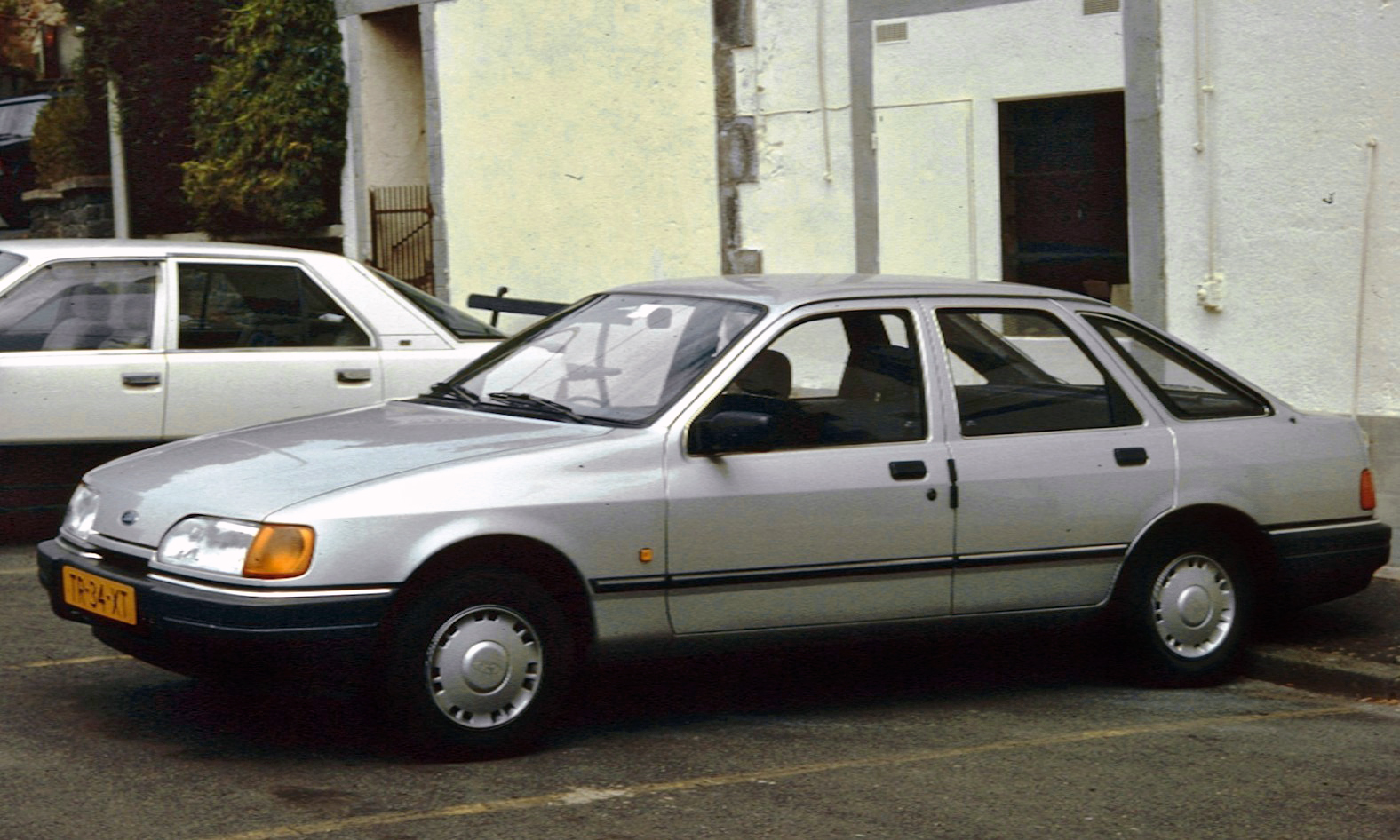 Ford Sierra 5 door liftback post faceliftThe car in the background is a Renault 25.